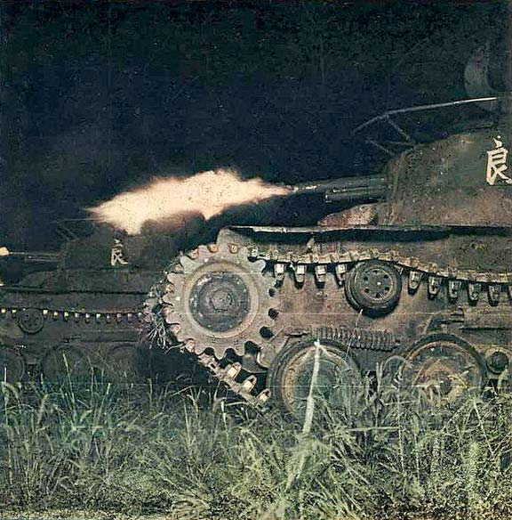 A Type 97 Chi-Ha tank of the 3rd company of the 1st Tank Division of the Imperial Japanese Army during a night exercise in Manchuria, 1943